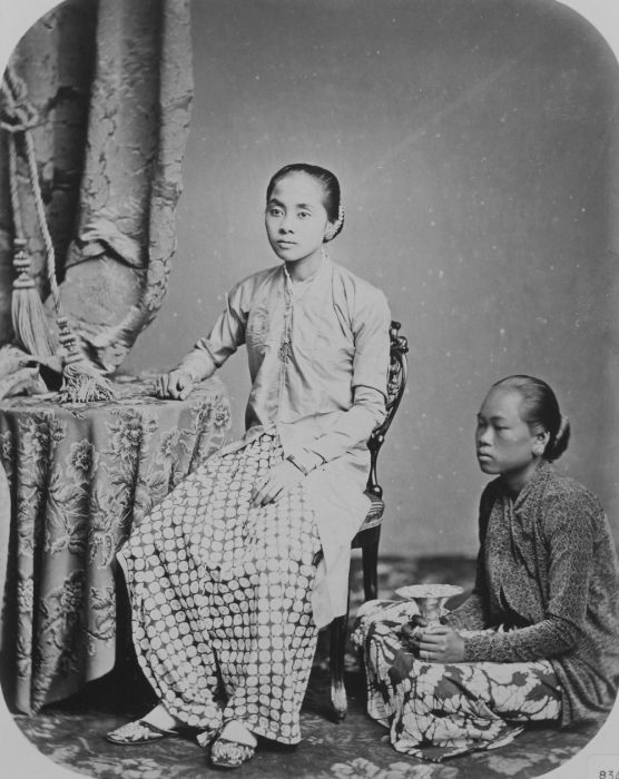 Photo from Tropenmuseum Collection. Studio portrait of the wife of painter Raden Saleh and a servant, Batavia